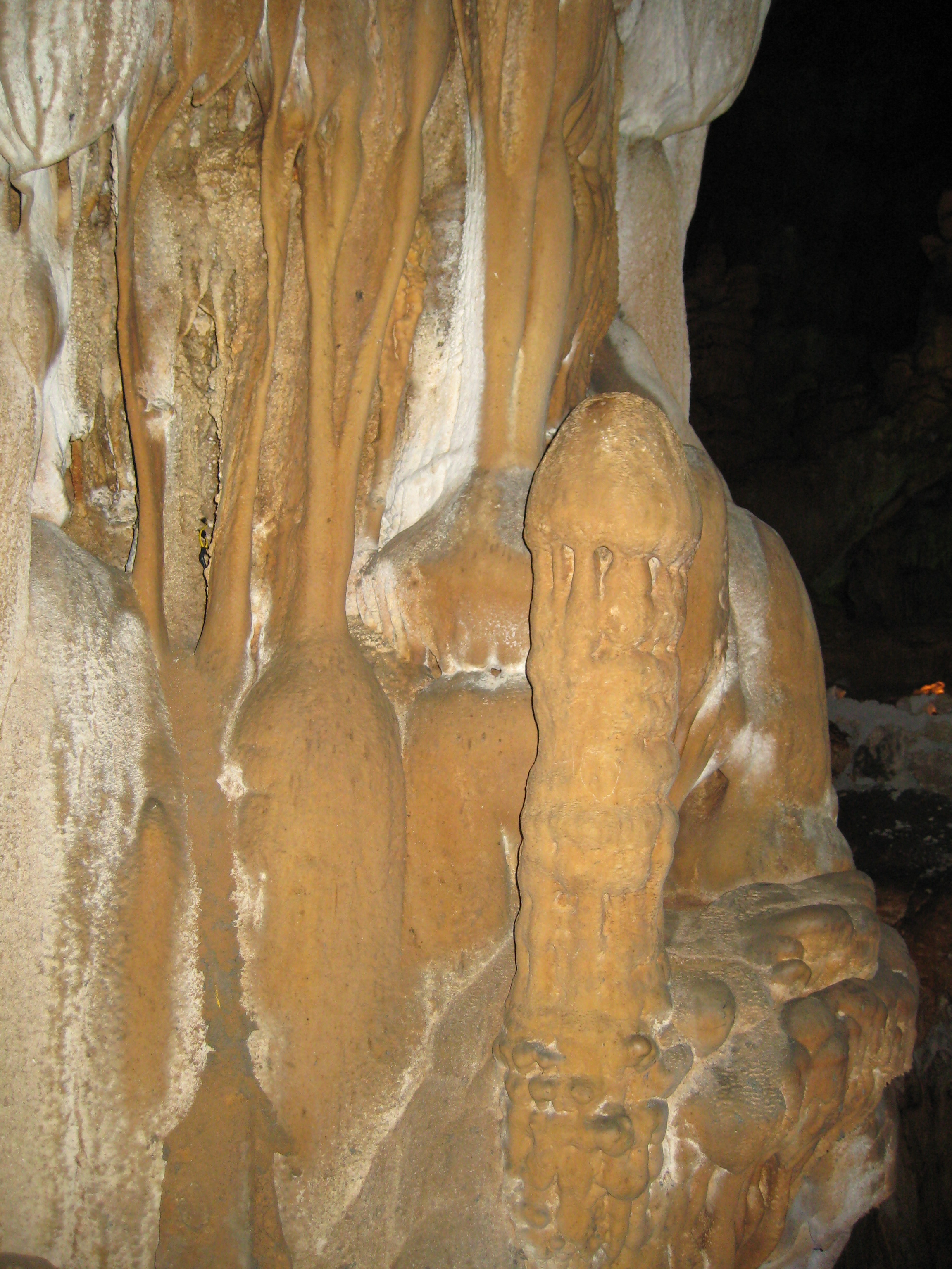 A linga-shaped stalagmite in a cave in Phong Nha-Ke Bang National Park, Vietnam